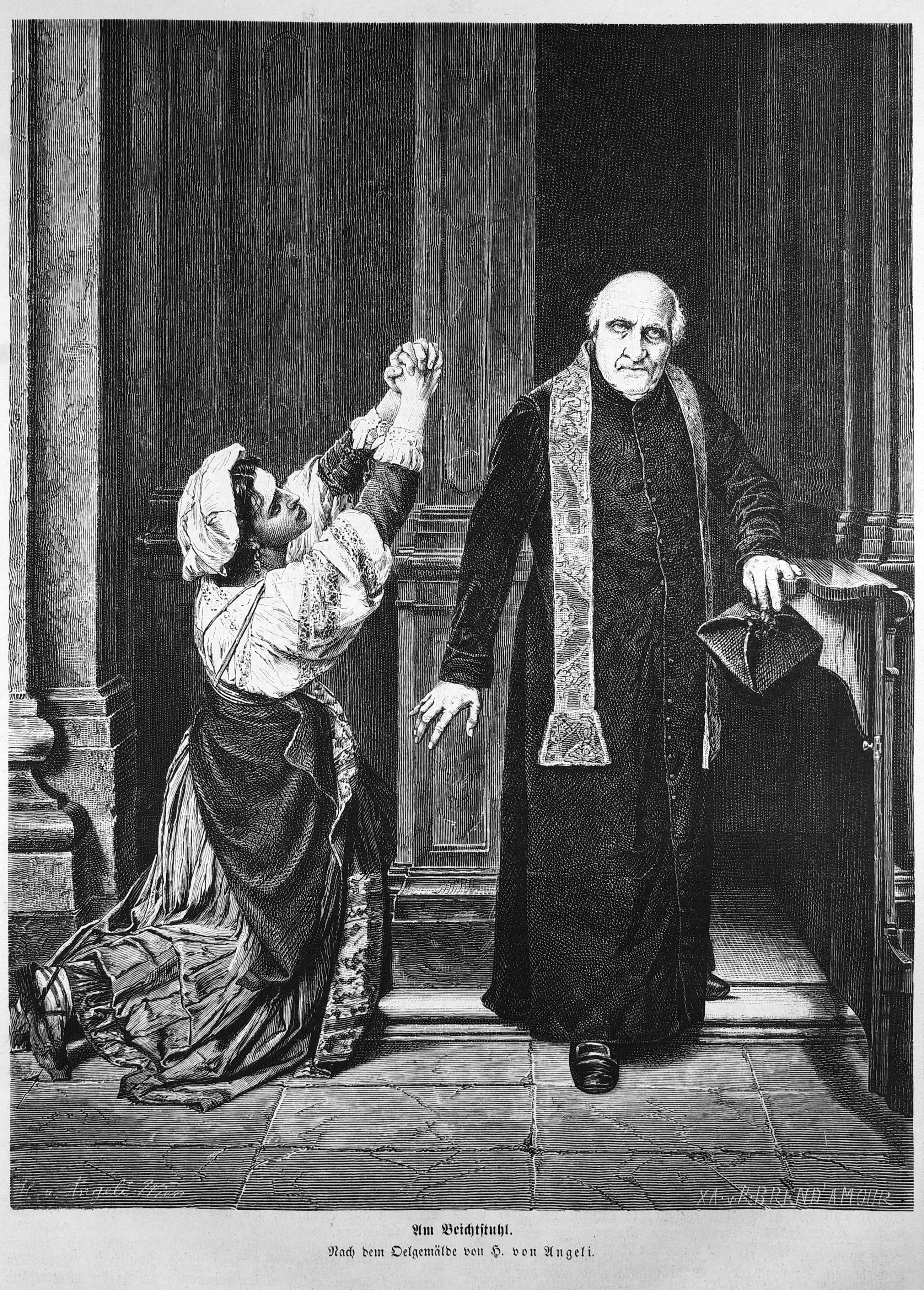 caption: "Am Beichtstuhl. Nach dem Oelgemälde von H. von Angeli."